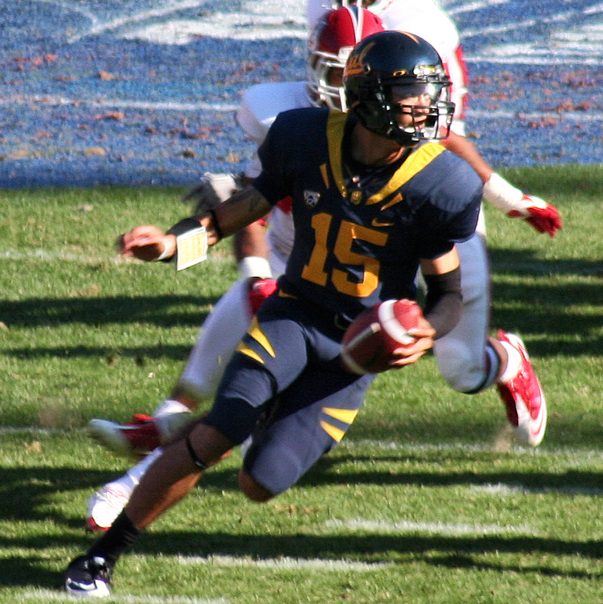 Zach Maynard carries the ball for the Cal Golden Bears in a 2011 game against Fresno State.